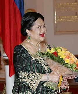 THE KREMLIN, MOSCOW. With Queen Sirikit of Thailand.